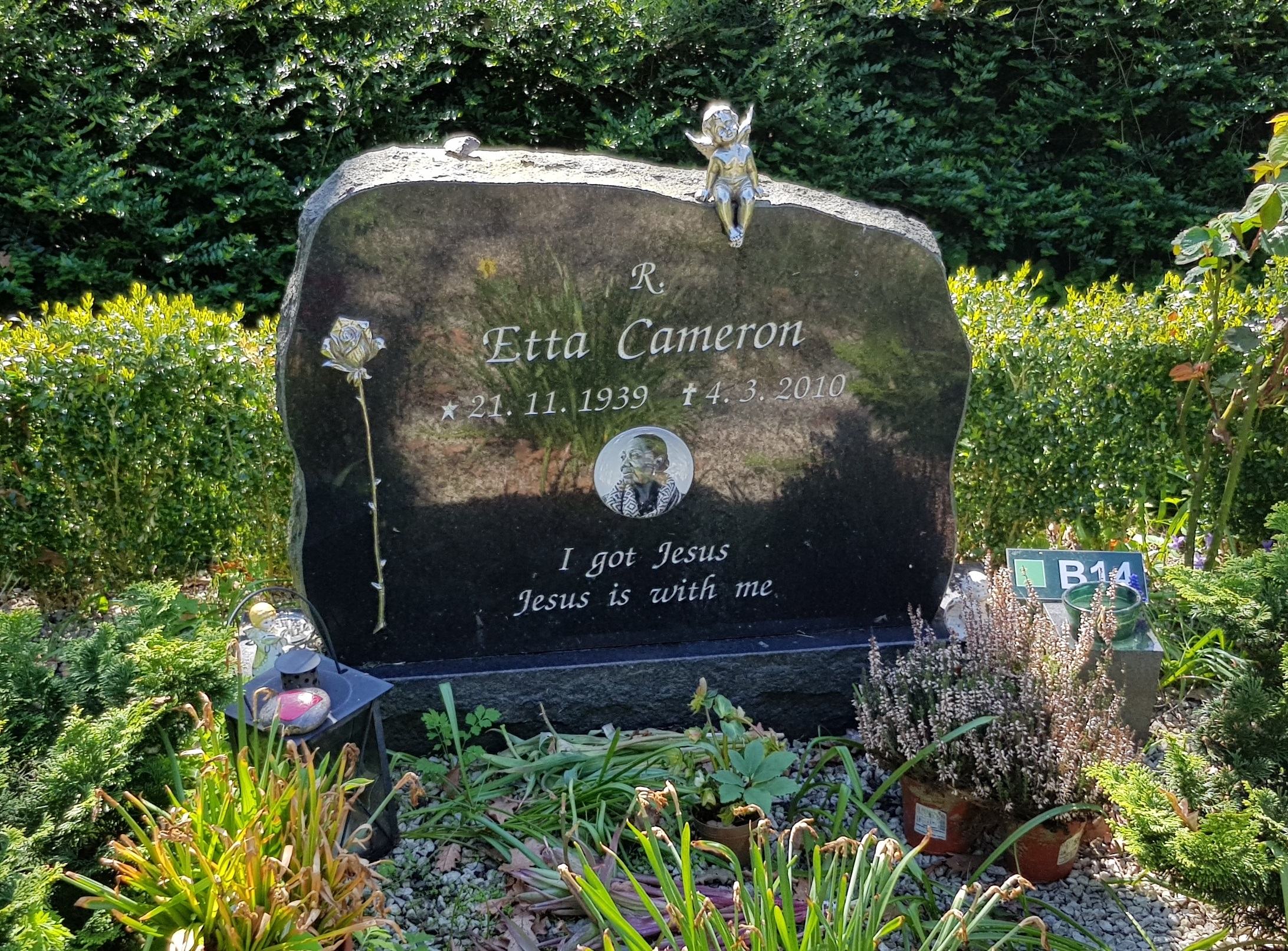 Tomb of Etta Cameron at Assistens Cemetery in Copenhagen.